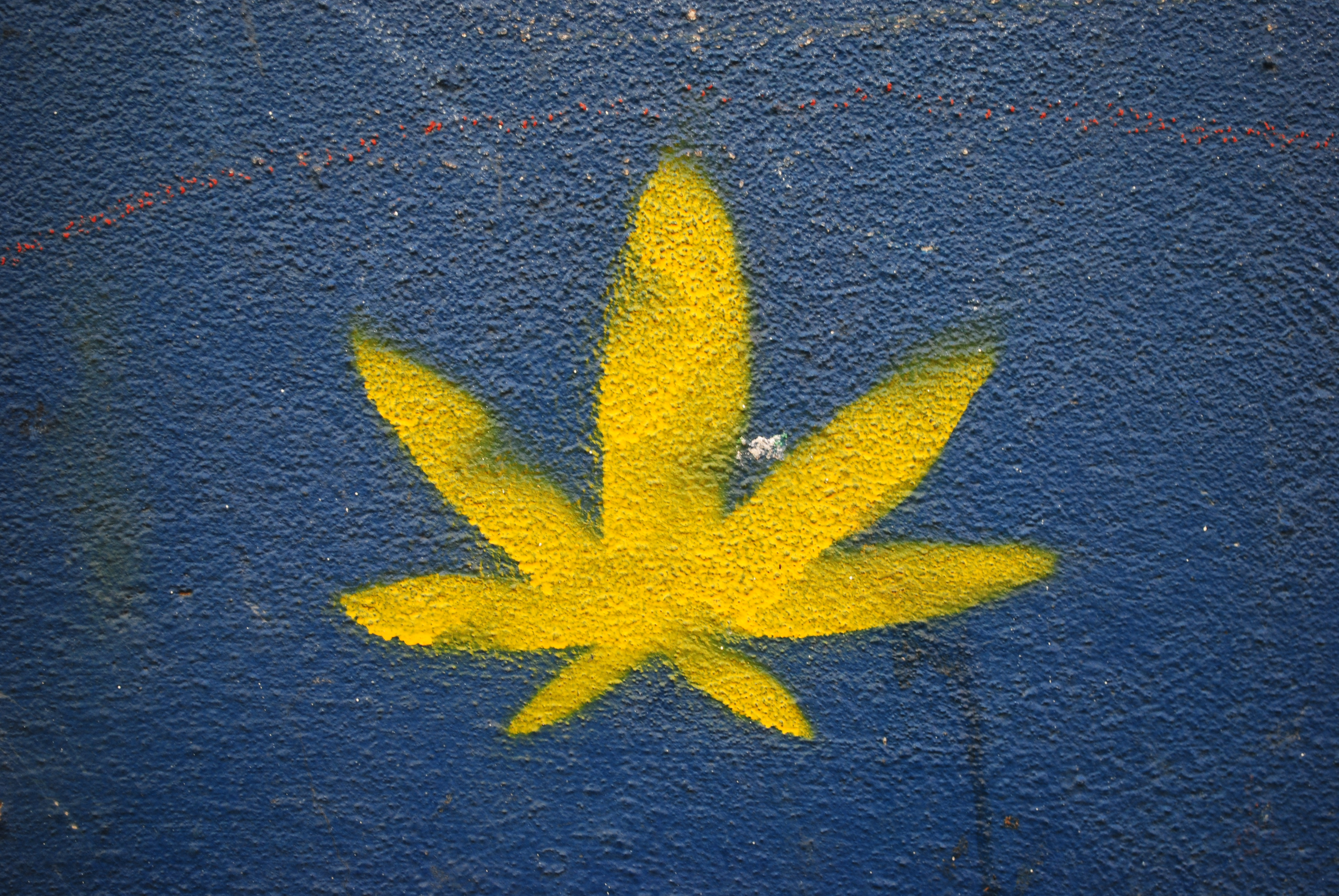 A graffiti / street art piece depicting a marihuana leaf.